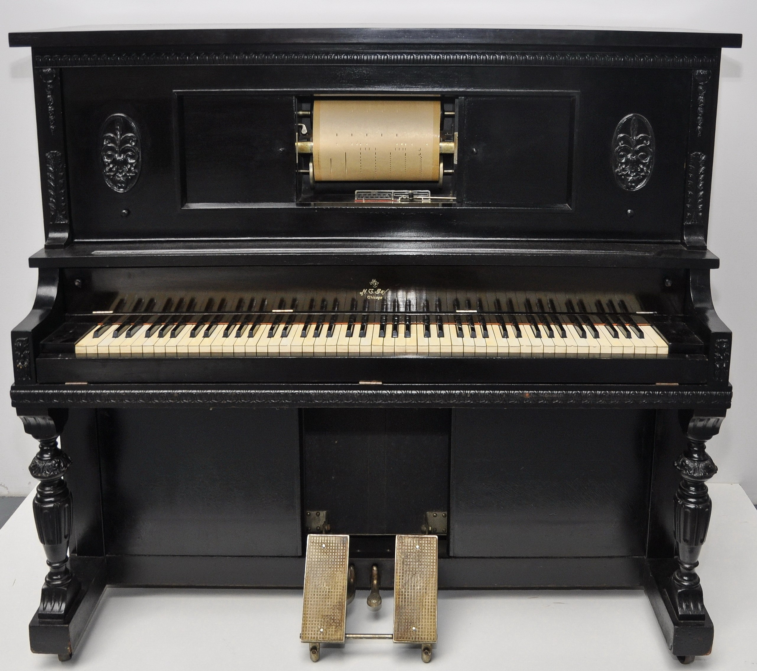 American player piano with rolls H. C. Bay, USA, from 1909-1917.